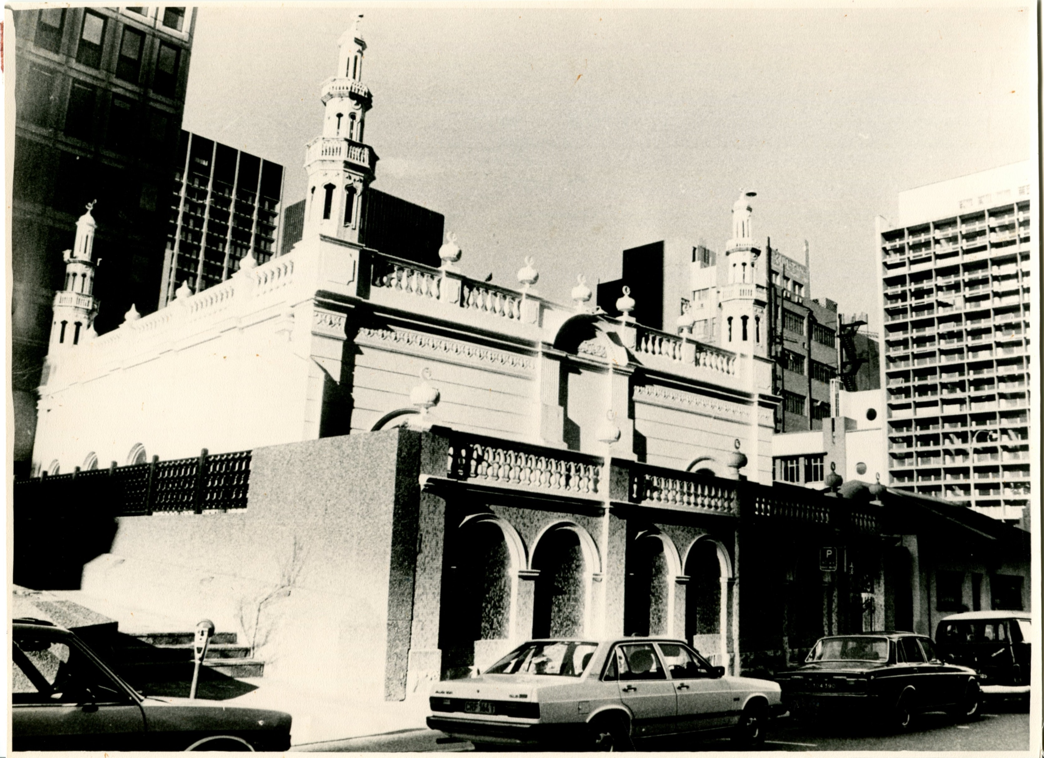 The Kerk Street Mosque in Johannesburg, it follows the grid of the city but designed to face 11 degrees to Mecca. works from the Johannesburg Heritage Foundation